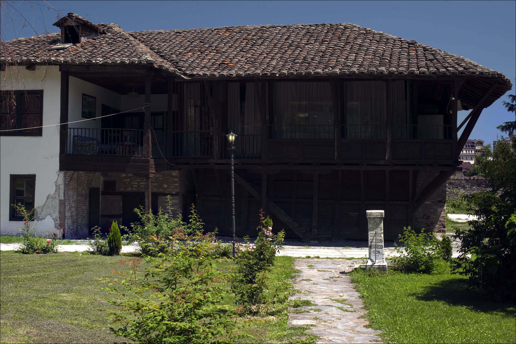 Dervish Arabat Baba Teke, Tetovo, Republic of Macedonia.